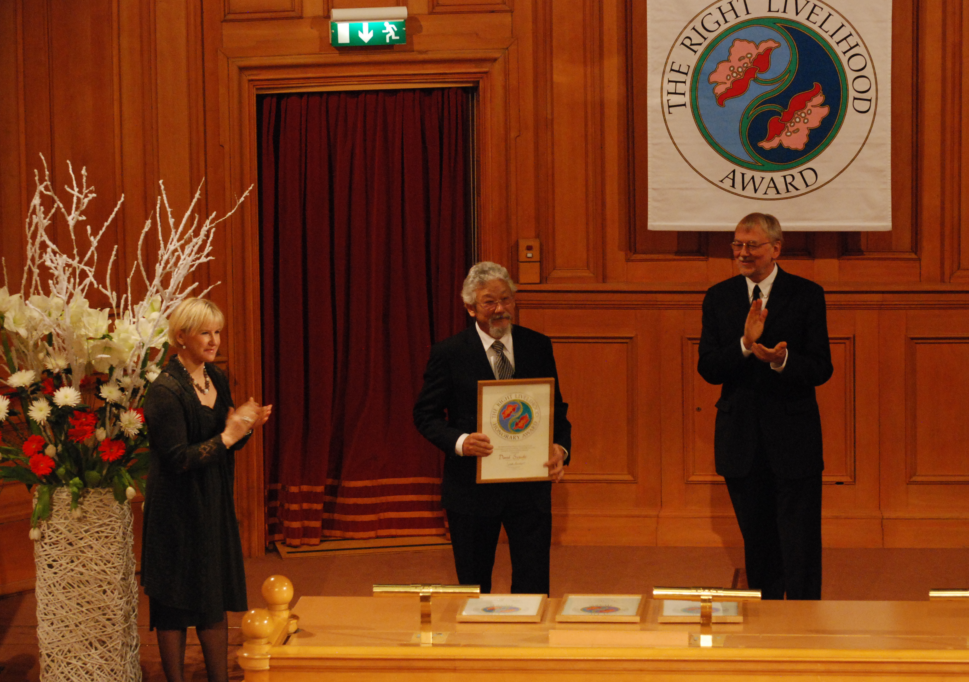 Award Ceremnony of the 30th Right Livelihood Award 2009: The prize is presented to David Suzuki (m) by Jakob von Uexküll (r). In the picture to the left: Margot Wallström.